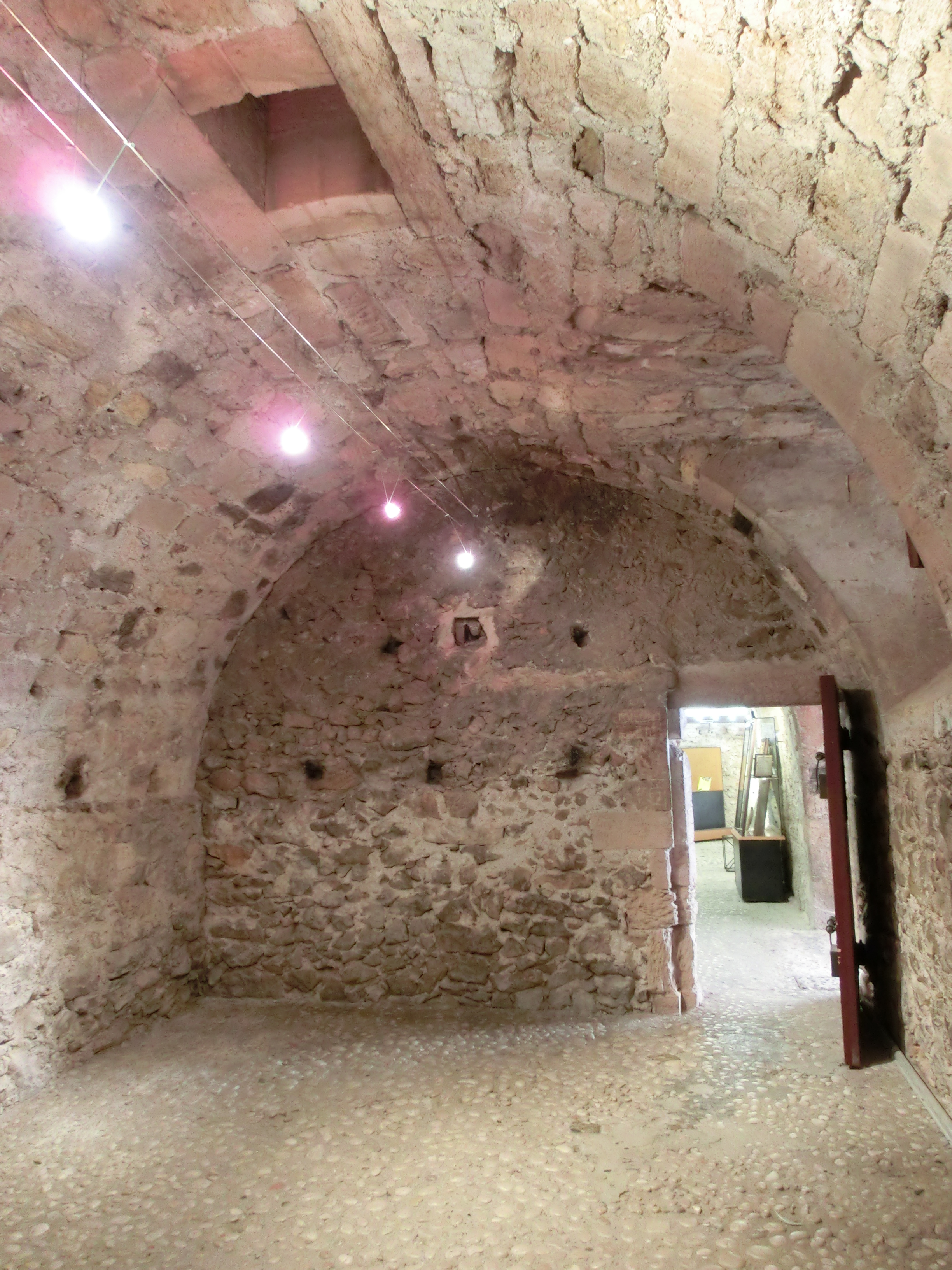 The Edmond Dantes cell in the Château d'If